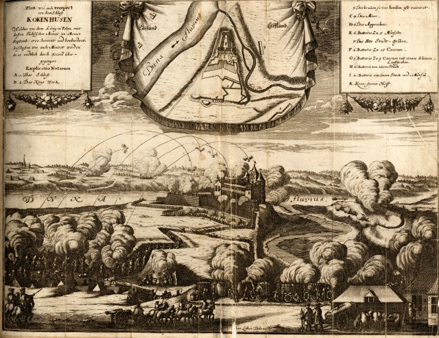 Image of Koknese castle